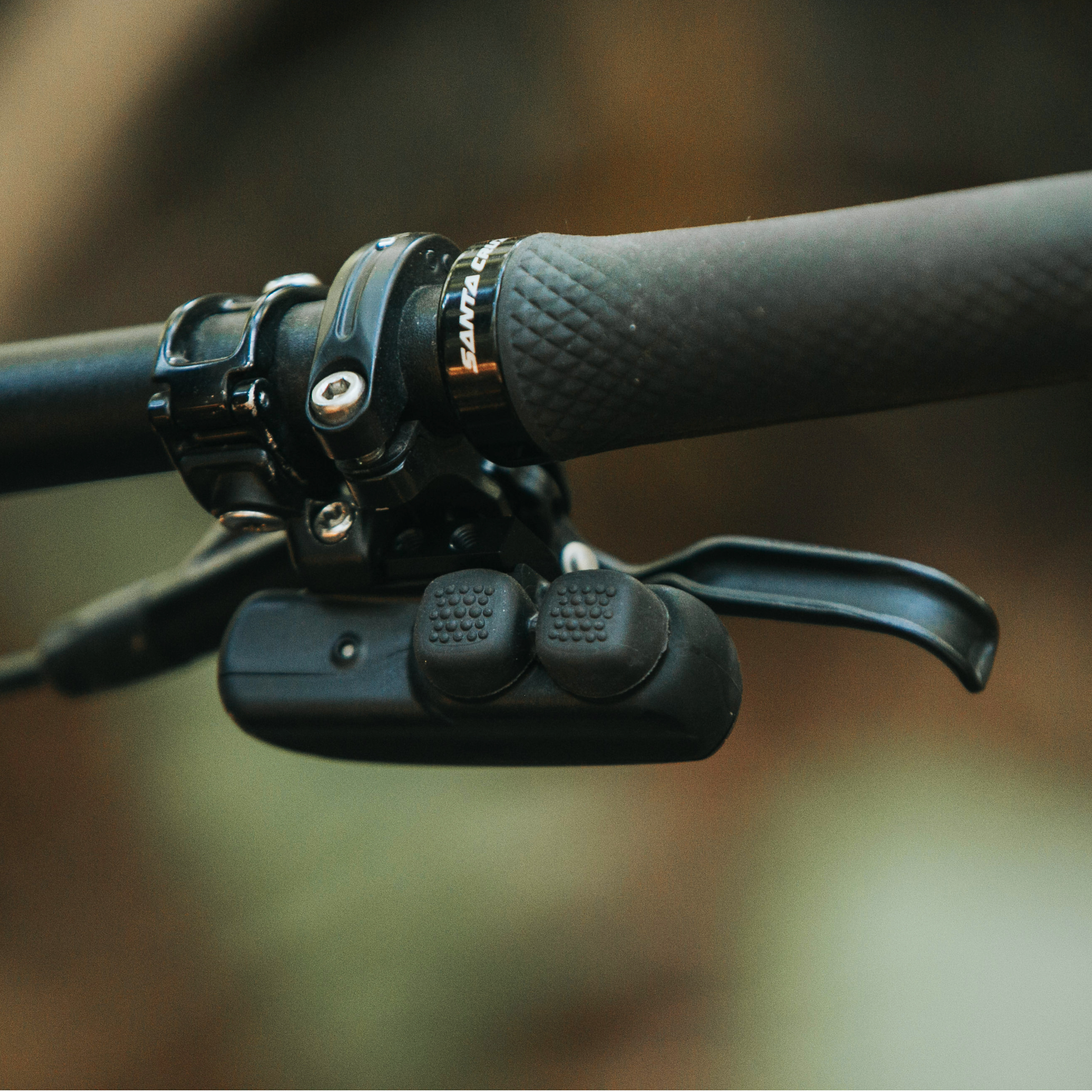 Handlebar mounted remote for the D1x Trail electronic shifting system from Archer Components